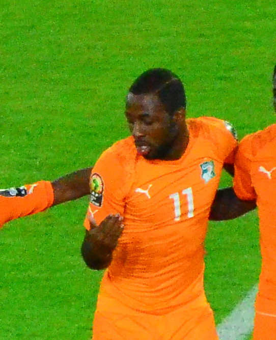 This is a picture of a soccer game (name of it is on file name).